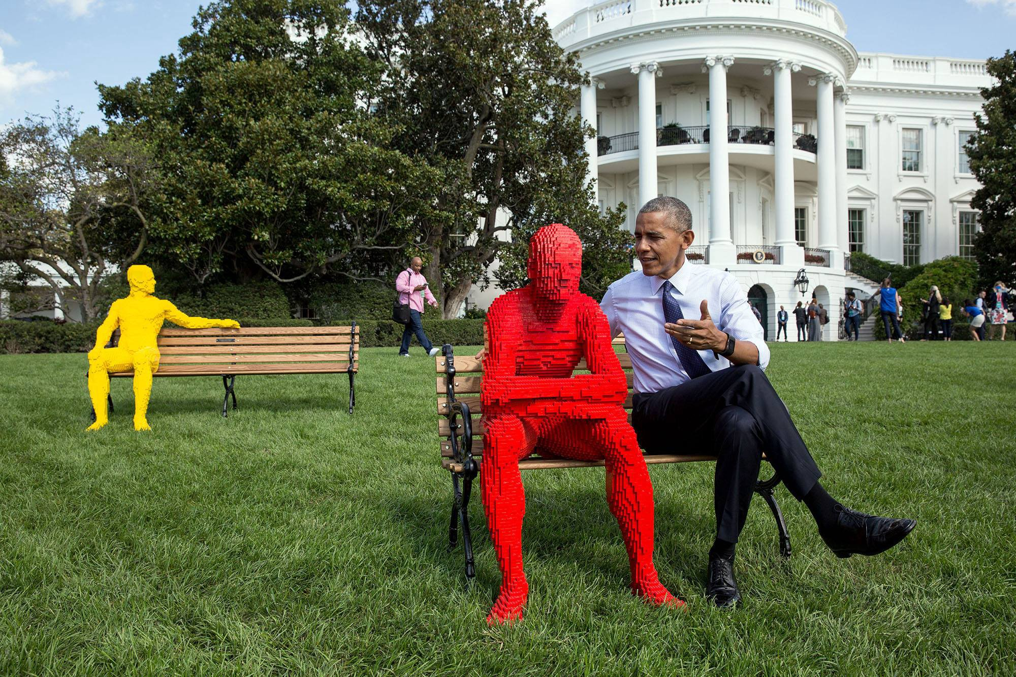 President Barack Obama sits with a Lego statue during preparations for the South by South Lawn event on the South Lawn of the White House, Oct. 3, 2016. (Official White House Photo by Pete Souza)